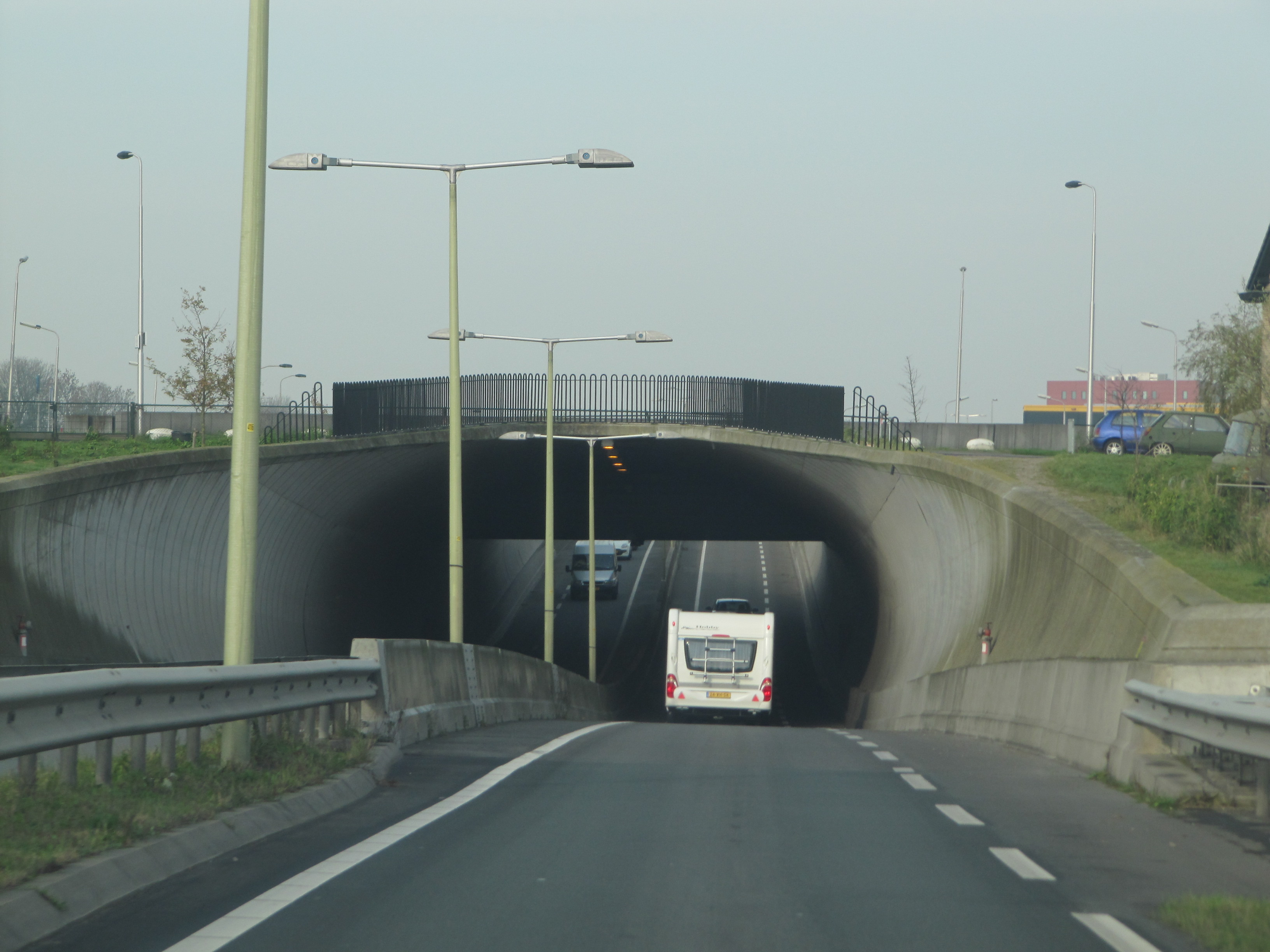 Tunnel Rodenrijseweg